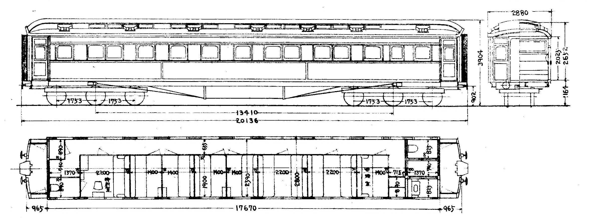 Type drawing of JGR's Suine28100 type passenger car (Gubusha No.700)